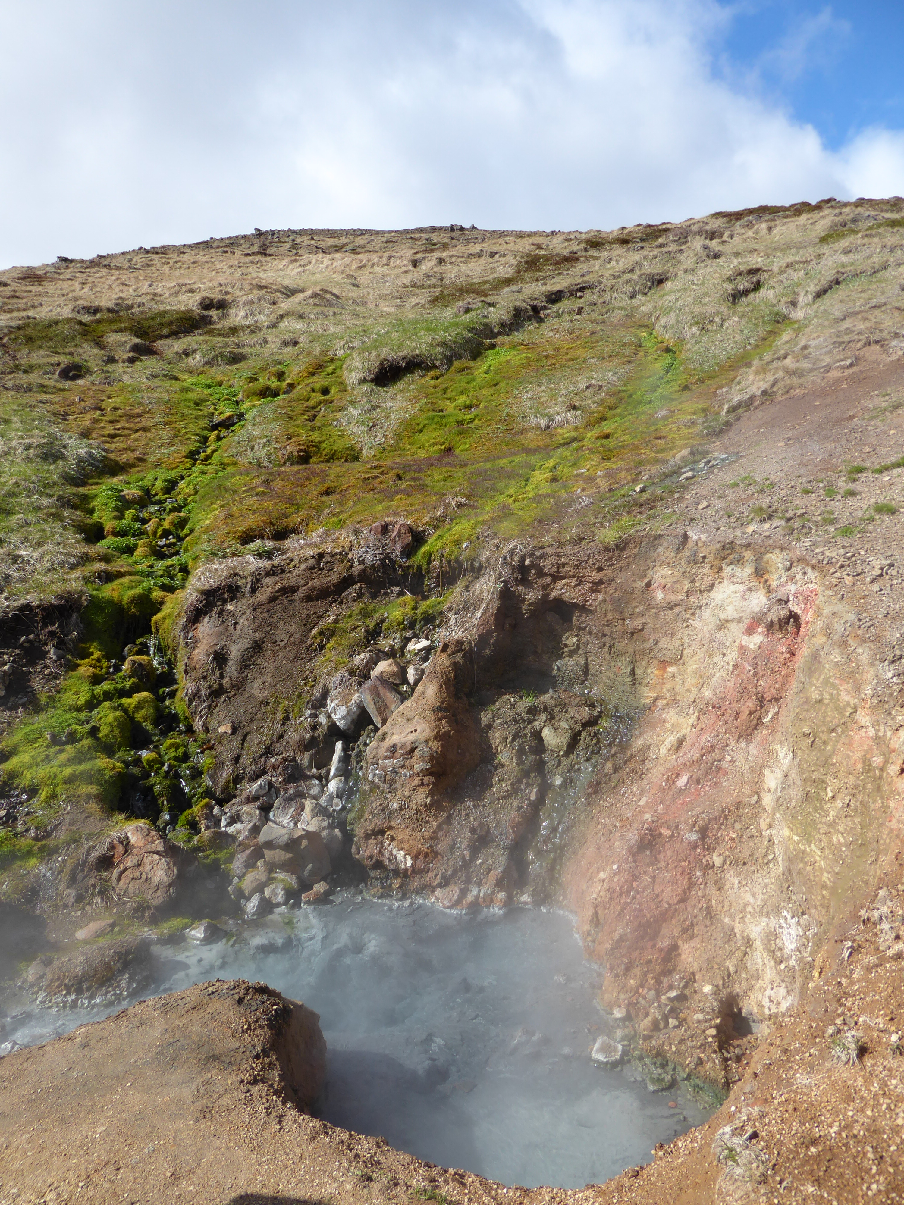 A photo of one of the springs at Hengill, Iceland